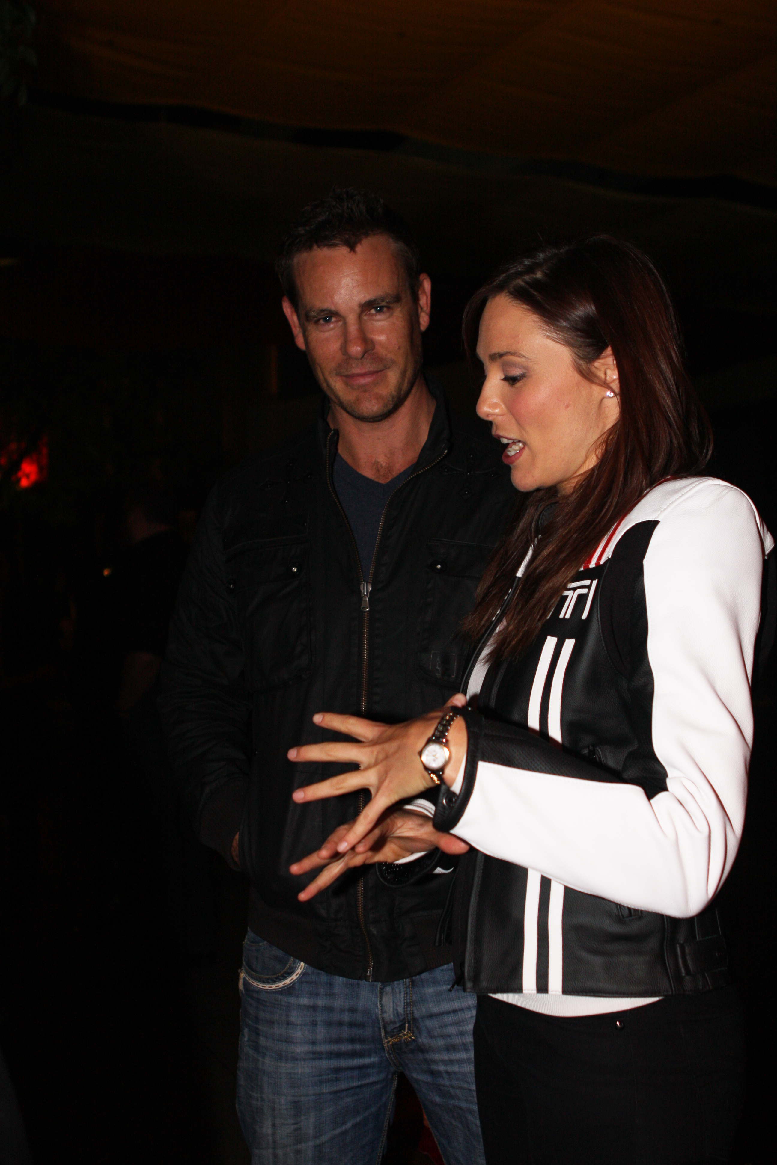 Aaron Jeffery and Zoe Naylor, Ducati Launch in Sydney, 2011